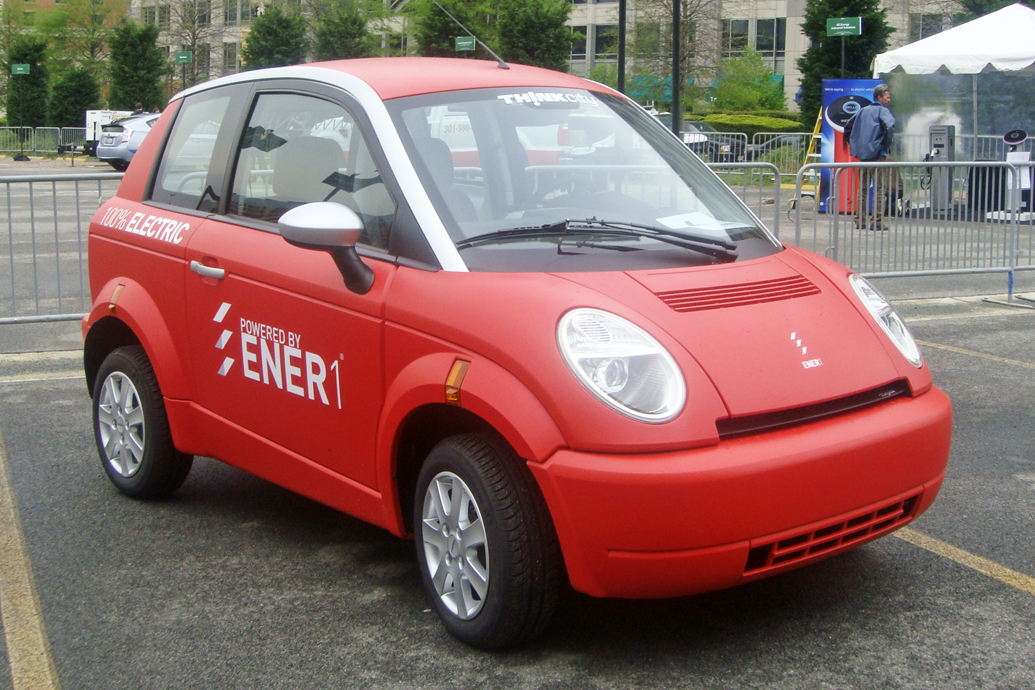 Th!nk City electric car at the Ride, Drive & Charge event organized by the EDTA, downtown Washington, D.C.